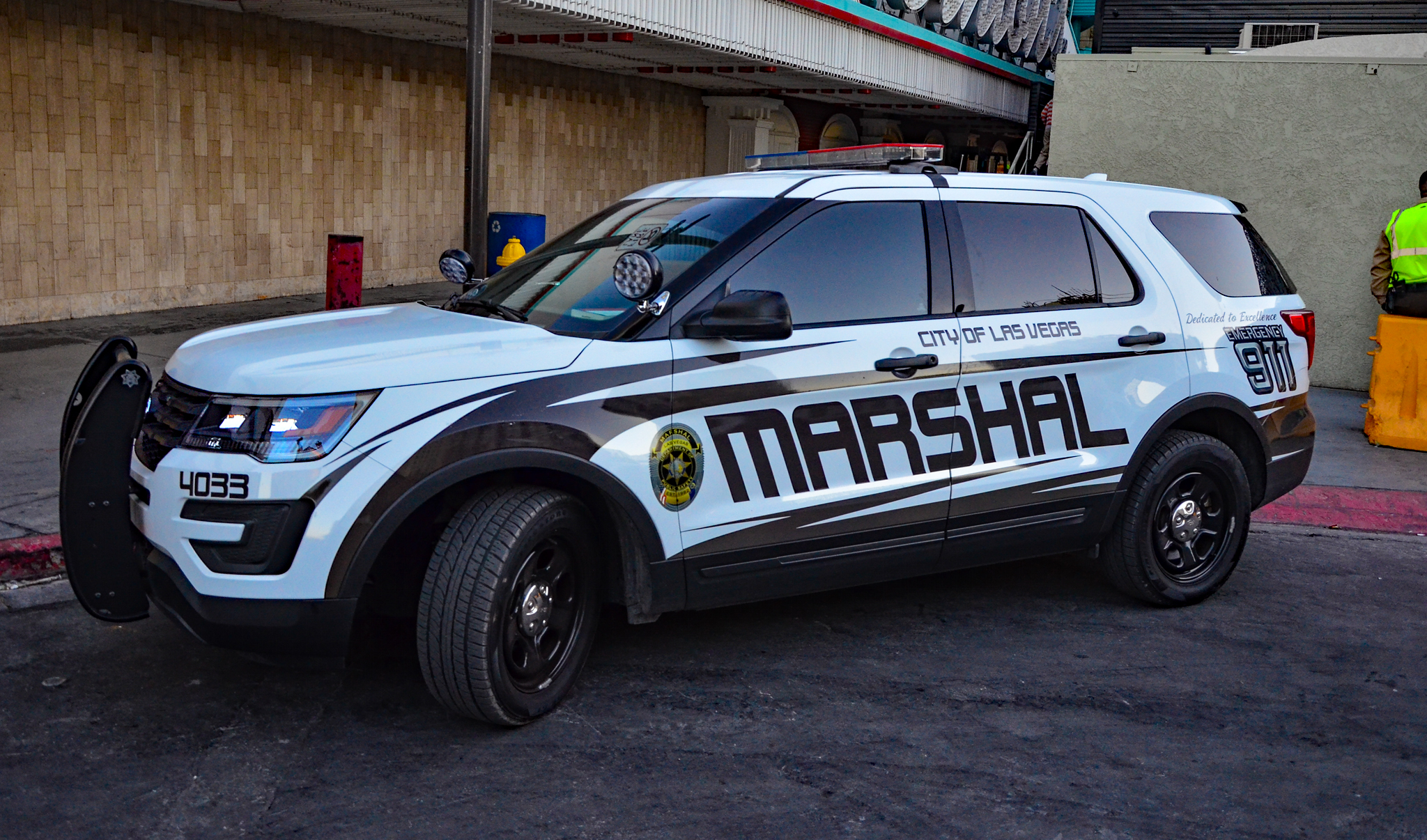 Photo: TDelCoro 10-7-2017